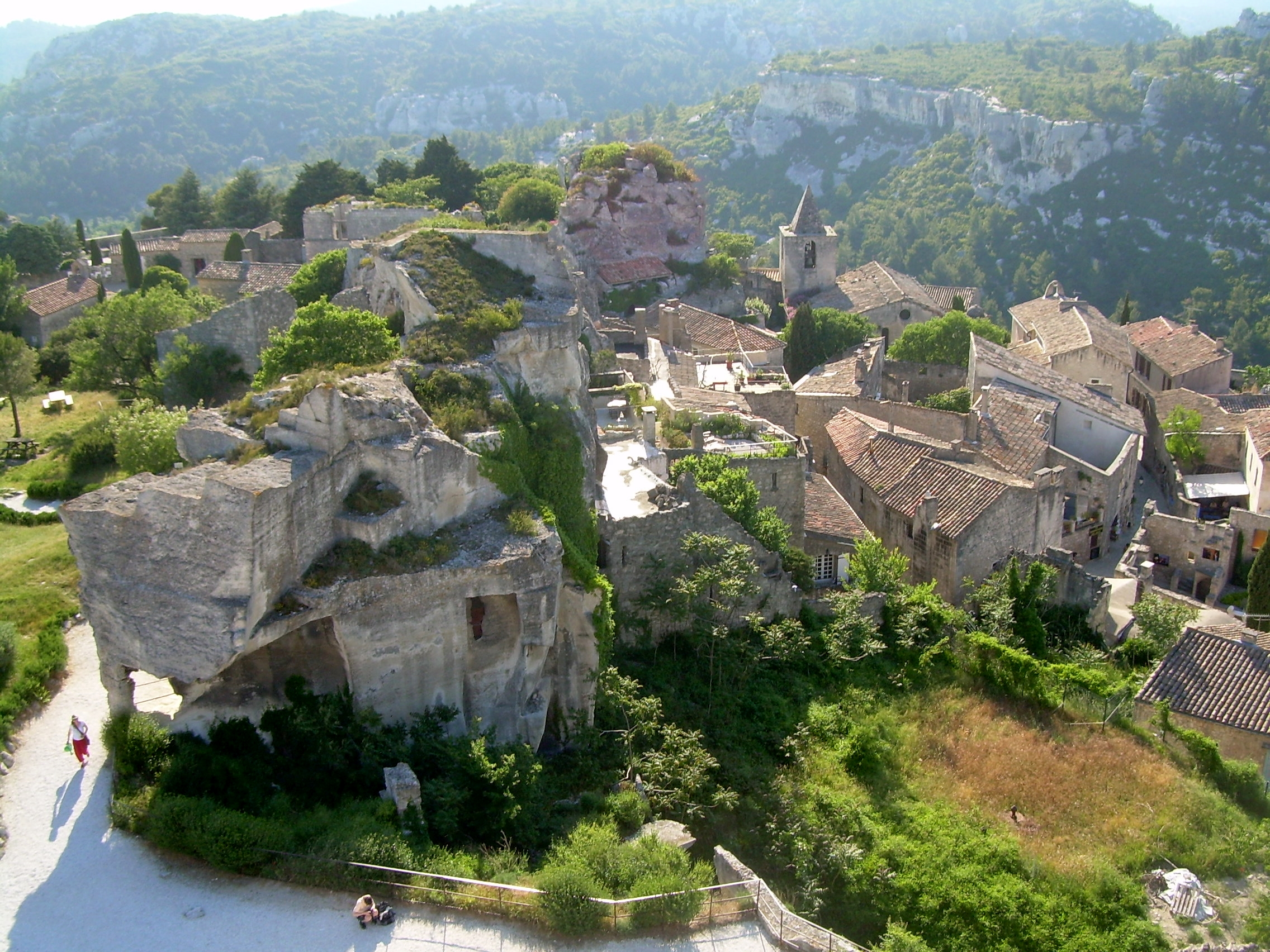 Les Baux from above, Provence